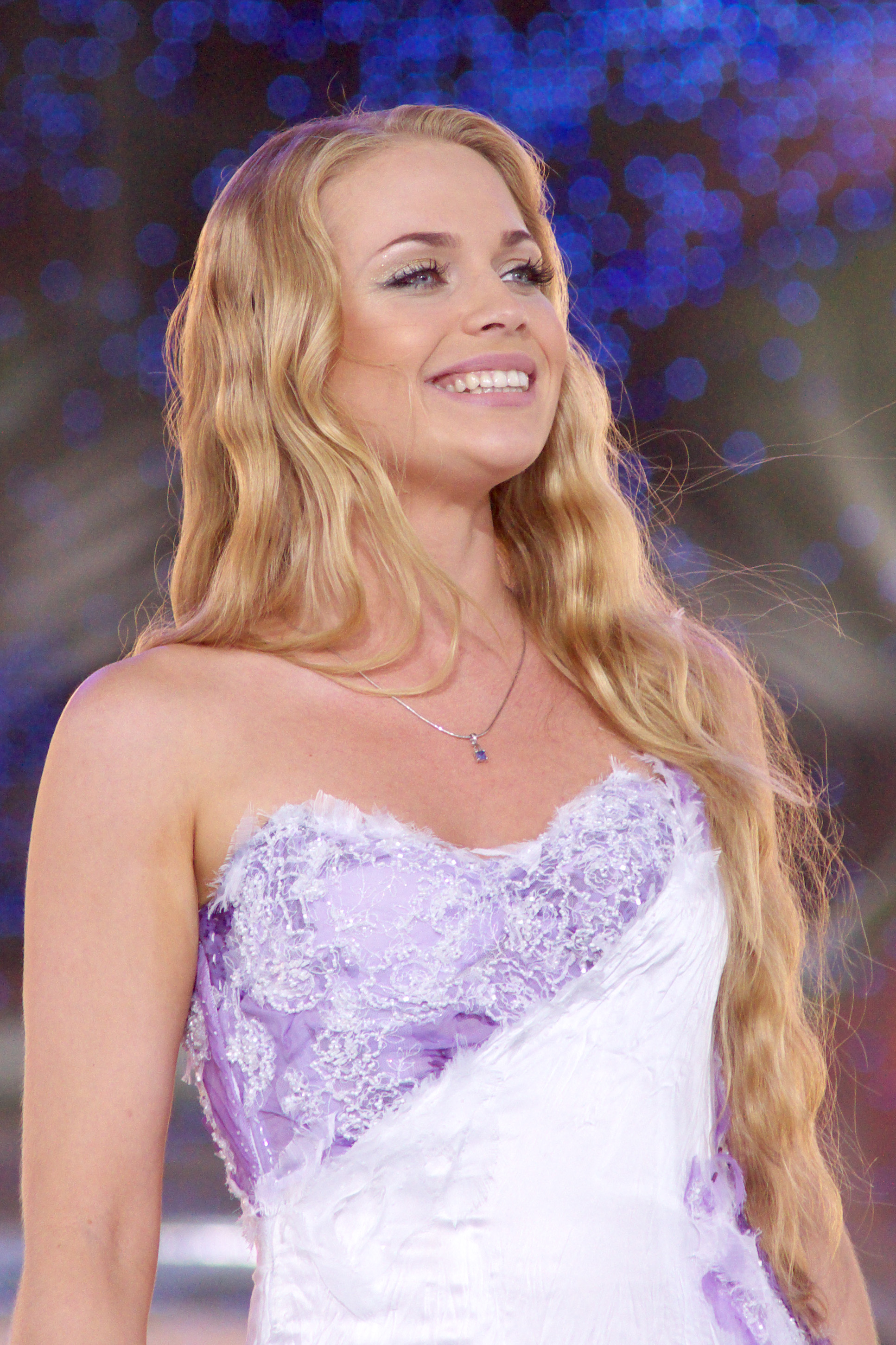 Alyona Lanskaya - winner of XX International Pop Song Performers Contest “VITEBSK-2011” on XX International Festival of Arts “Slavianski Bazaar in Vitebsk”